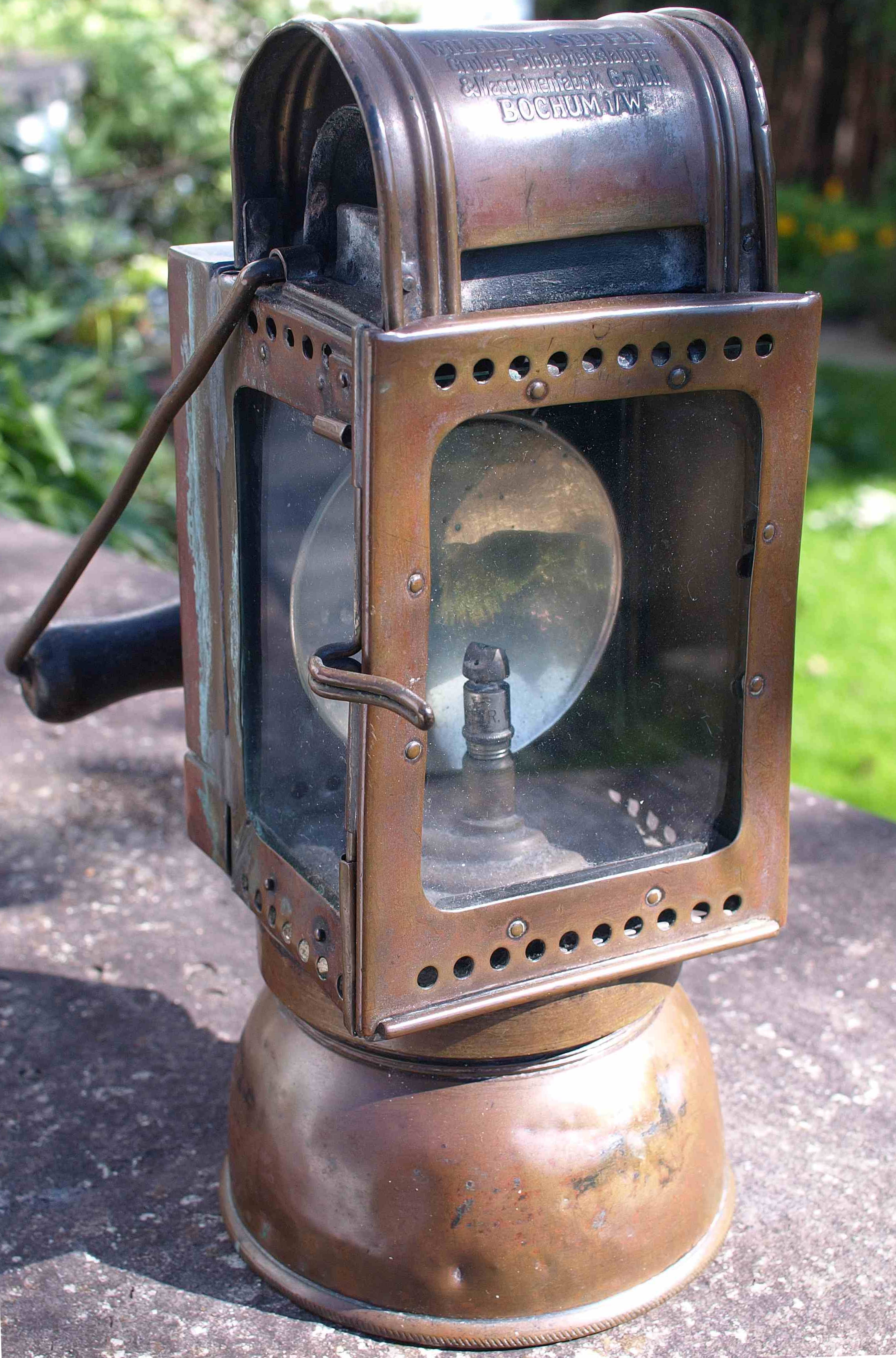 Railroad worker's carbide-lamp. Water tank on the back, carbide container on the bottom. Deutsche Reichsbahn app. 1930